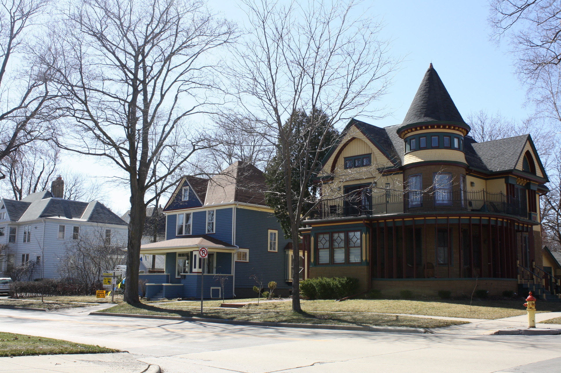 2 houses in the Appleton City Park Historic District at the intersection of Lawe and Eldorado. The district is listed on the National Register of Historic Places.